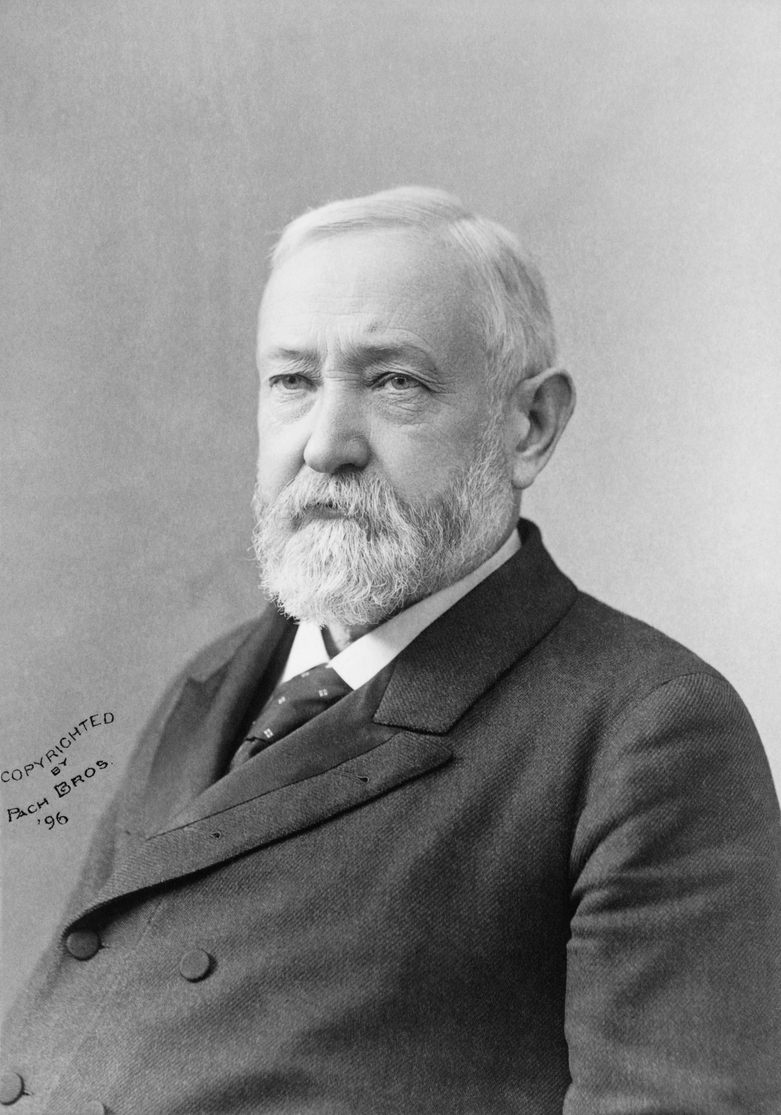 1896 Pach Brothers studio photograph of United States President Benjamin Harrison.